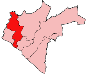 Map of Grand Bassa County, Liberia showing District #1; created with the GIMP. Made by User:Acntx.